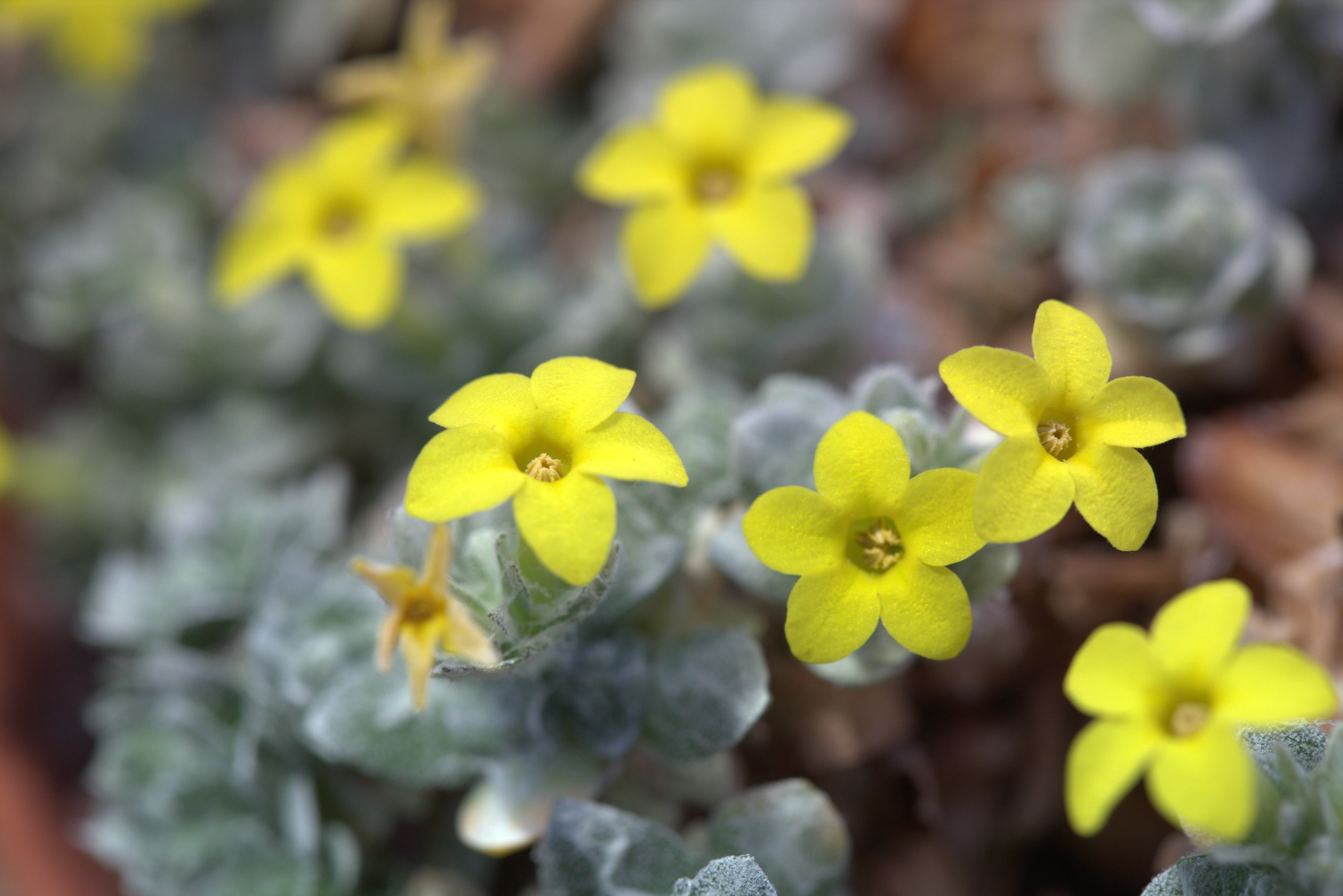 Dionysia aubrietioides at Gothenburg Botanical Garden in 2015. Plant id: 2002-2059; T4Z 136-2